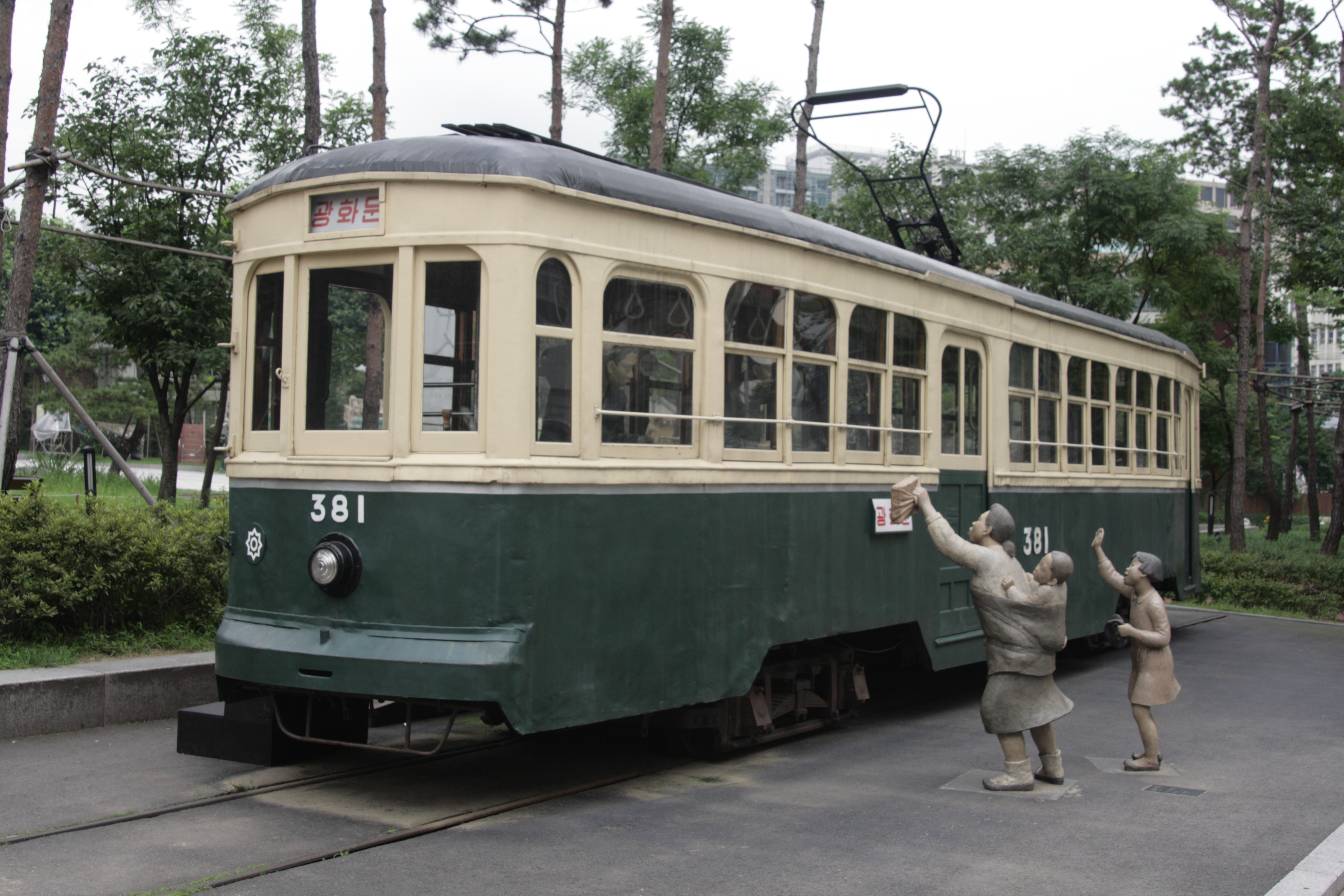 The old tram car 381 in front of the Seoul Museum of History. These cars were imported from Japan starting in 1930, and remained in use until 1968.